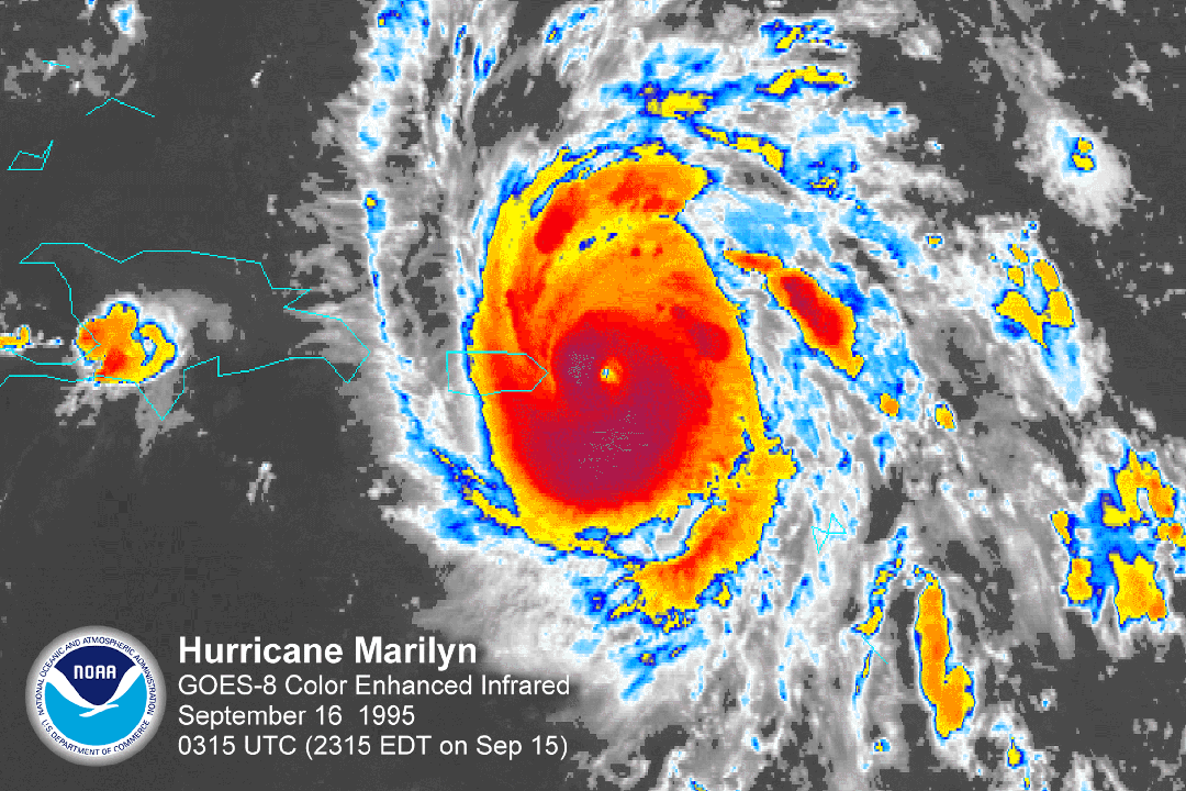 Hurricane Marilyn in the Caribbean — on 16 September 1995 at 0315 UTC.